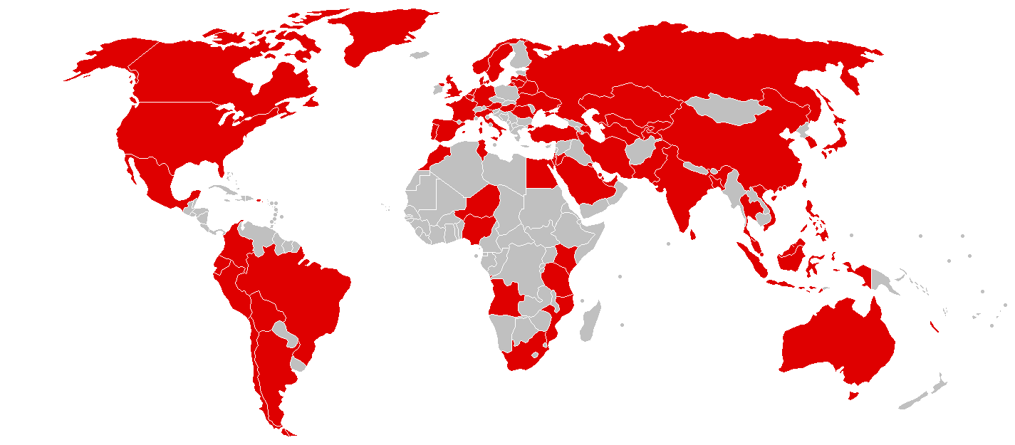 Countries initially affected in WannaCry ransomware attack. The source says: "...countries affected in the first few hours of the cyber-attack..."